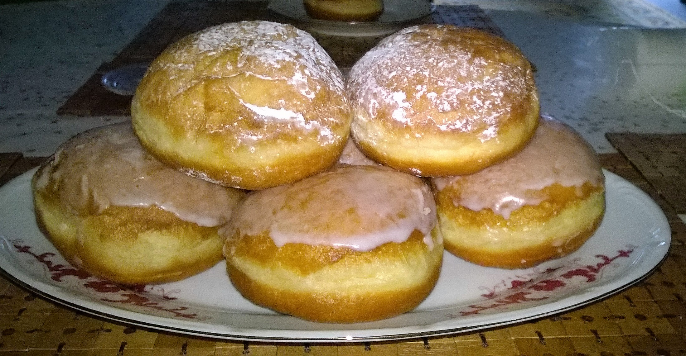 Polish pączki (incorrectly called "doughnut")